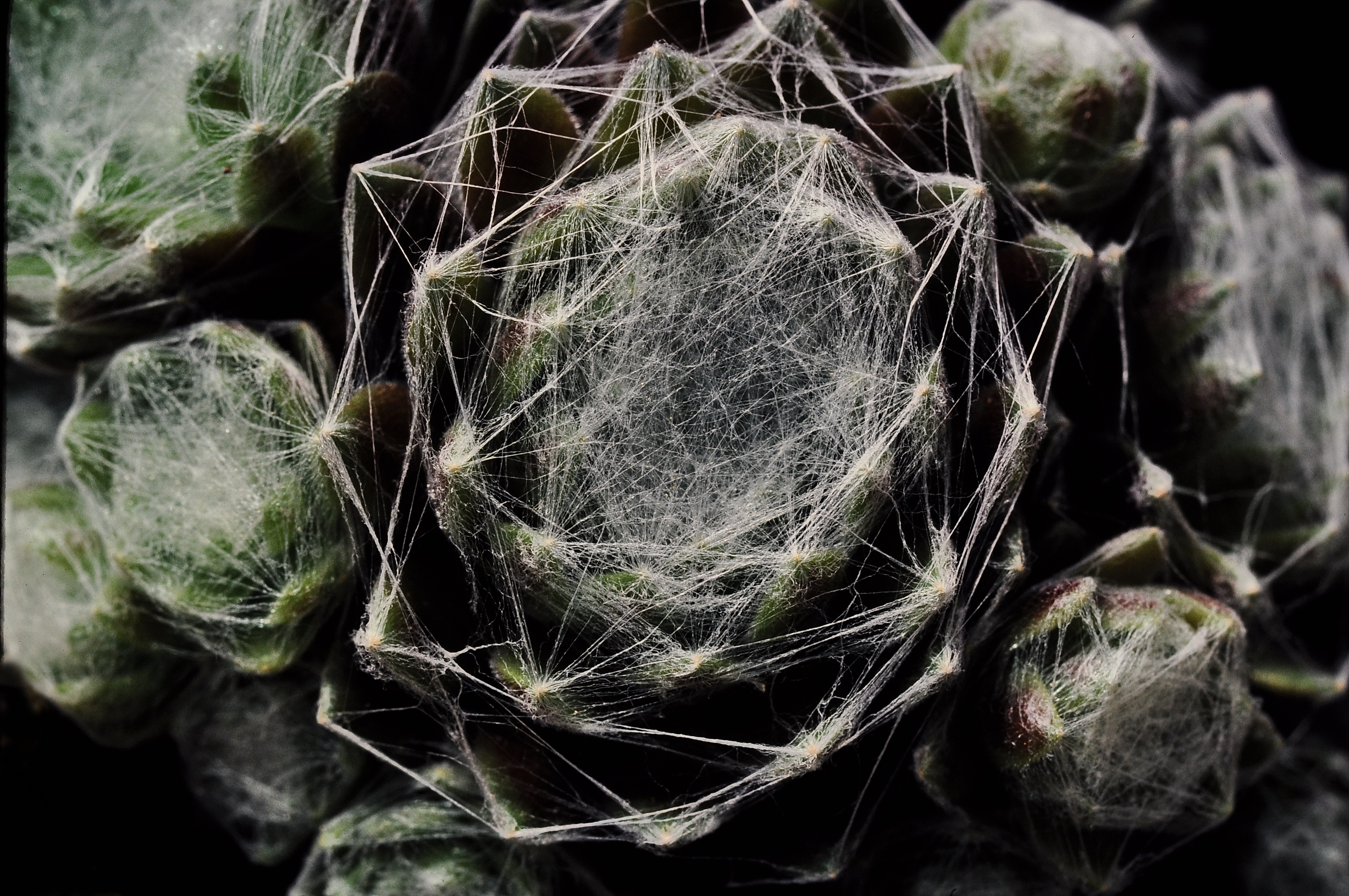 Sempervivum arachnoideum, whose leaves have hairy edges.